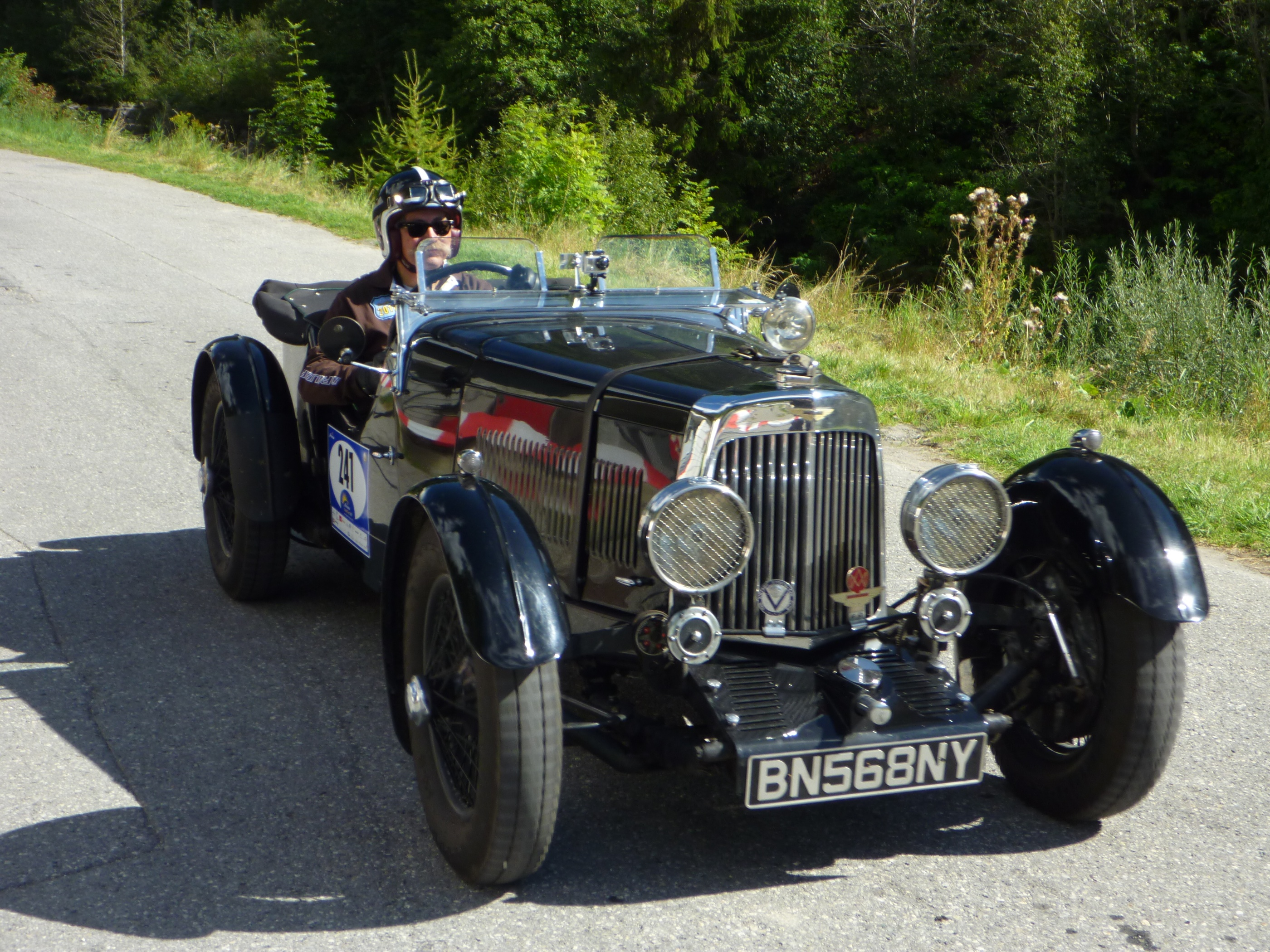 A Aston Martin LeMans Mk2 at Arosa ClassicCar race, Switzerland